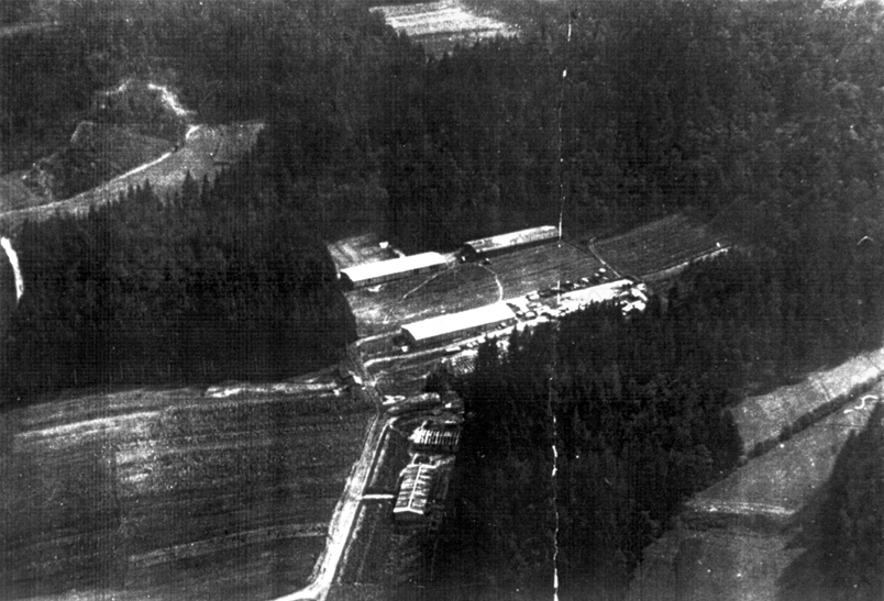 Teharje camp in the summer of 1943, during its construction